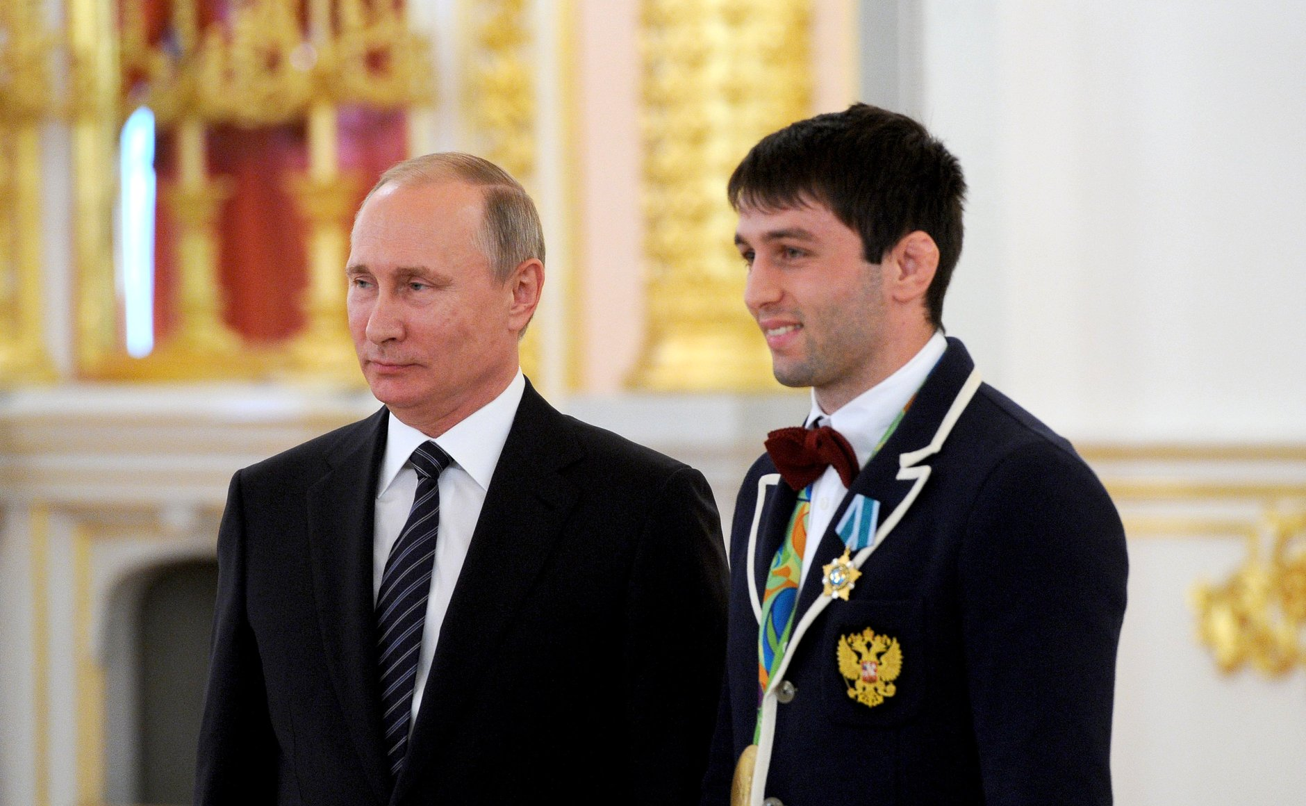 Vladimir Putin presented state awards to the Russian athletes who won gold medals at the 2016 Olympic Games in Rio de Janeiro (Brazil).